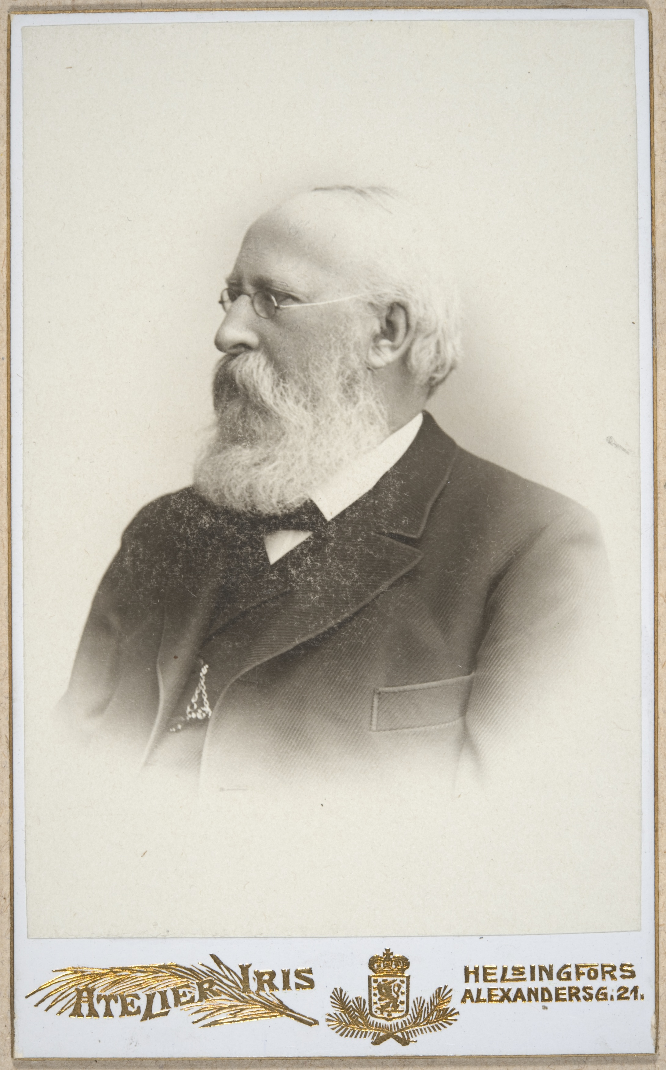 Axel Olof Freudenthal.